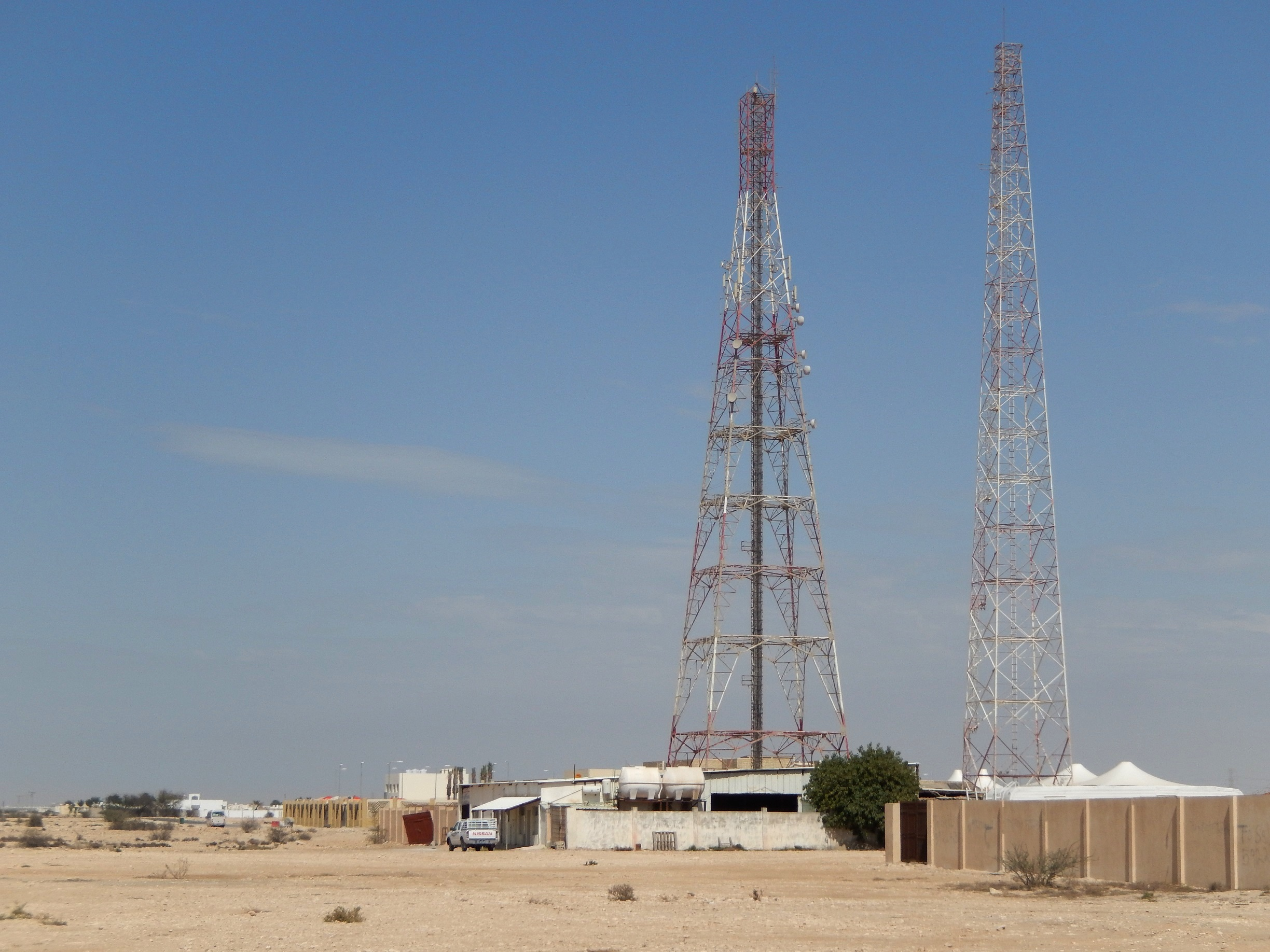 Telecommunication masts in Al Ghuwairiyah, northern Qatar.